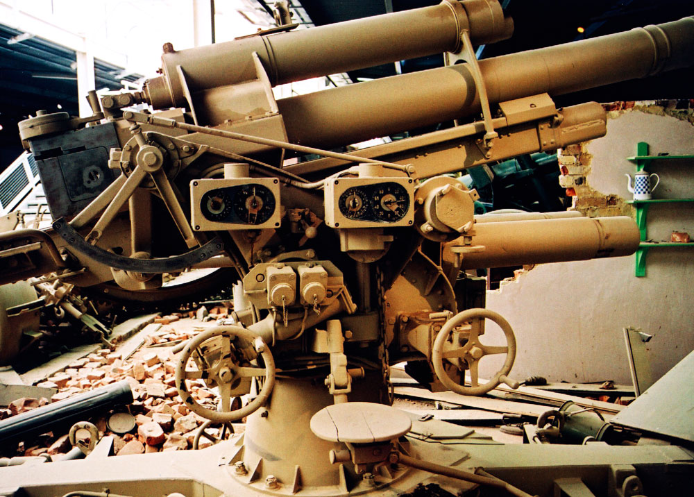 German 88 mm anti-aircraft gun display at Land Warfare Hall, Imperial War Museum Duxford, 2001.